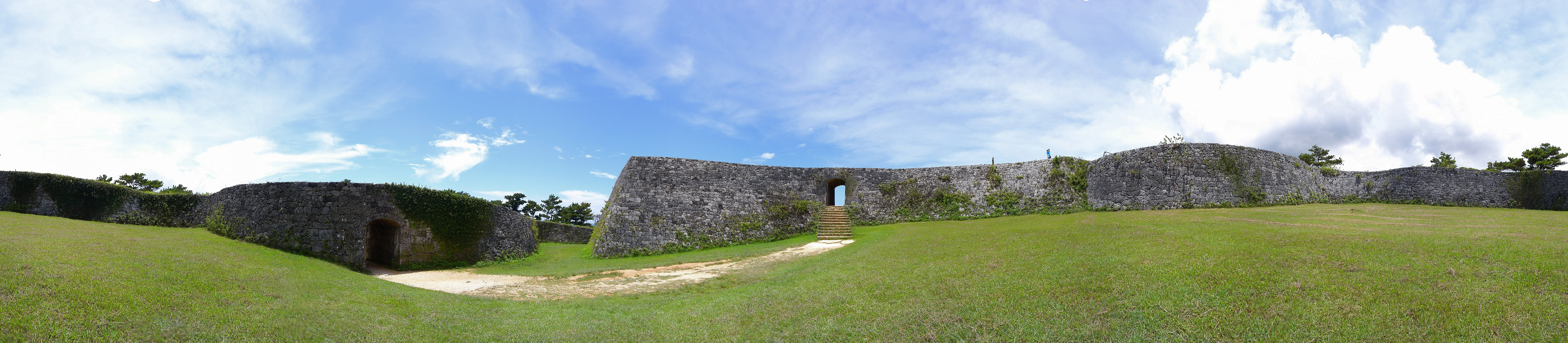 The ruin of Zakimi gusuku, old castle of Ryukyu realm, Okinawa, Japan. One of the world heritages. 世界遺産座喜味城(ざきみぐすく)跡。